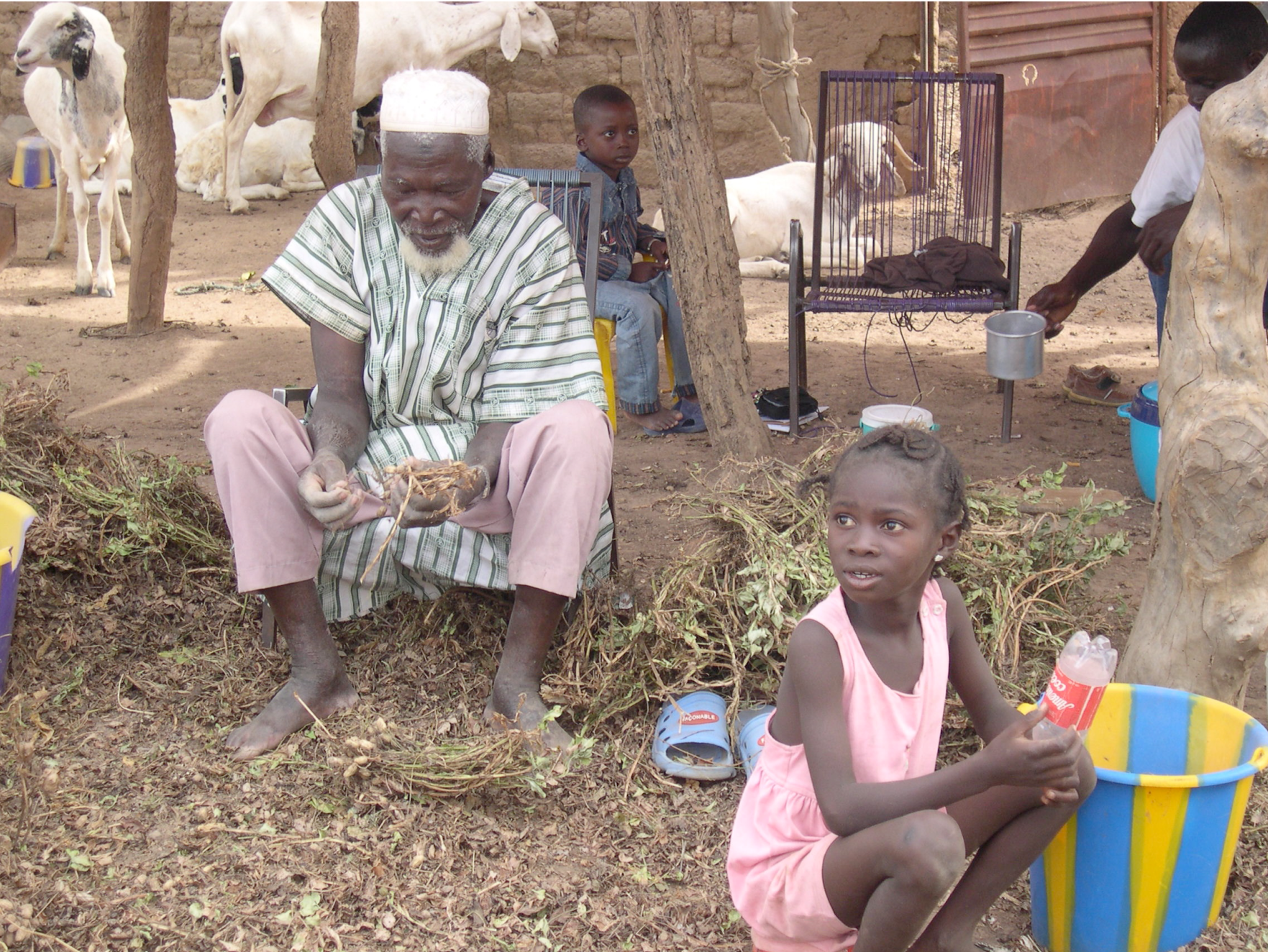 Photography from the french movie En terre étrangère (In a foreign land)